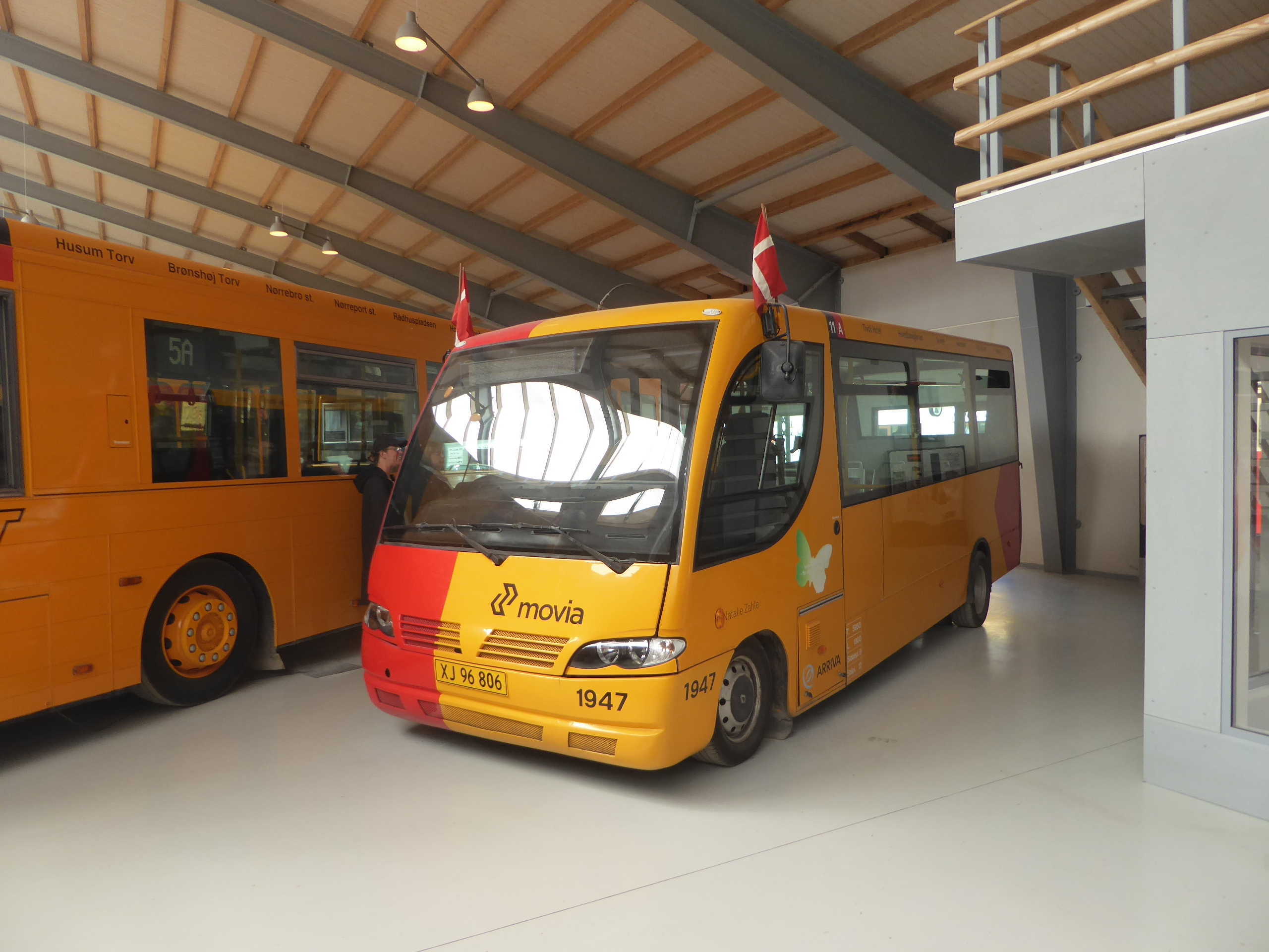 Old bus from Copenhagen, Arriva Danmark 1947 build in 1949, in the new bus exhibition hall at Sporvejsmuseet Skjoldenæsholm in Denmark.